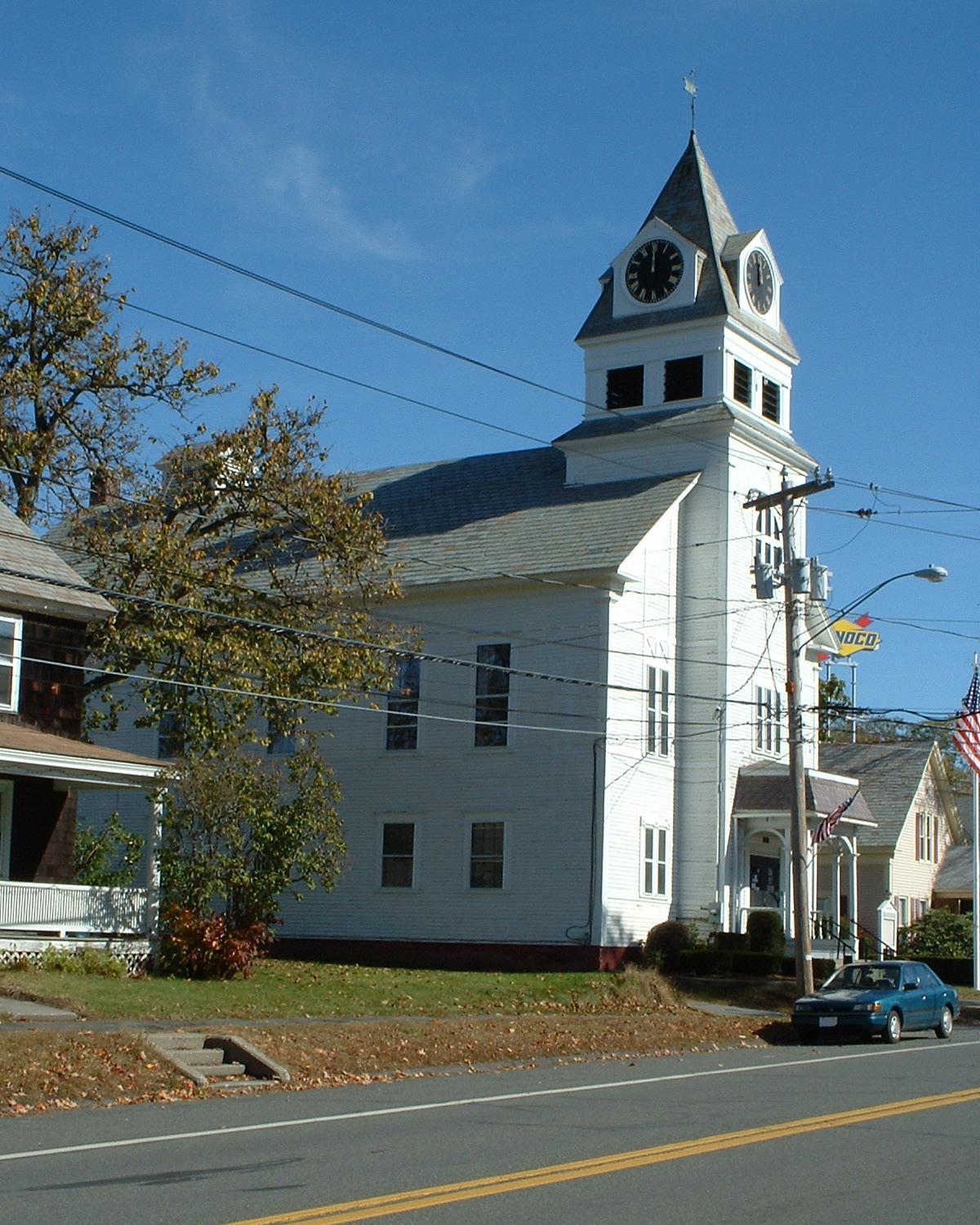 Bernardston Town Hall, Bernardston, MA Bernardston Town Hall, Church St (Rte. 10), Bernardston, MA